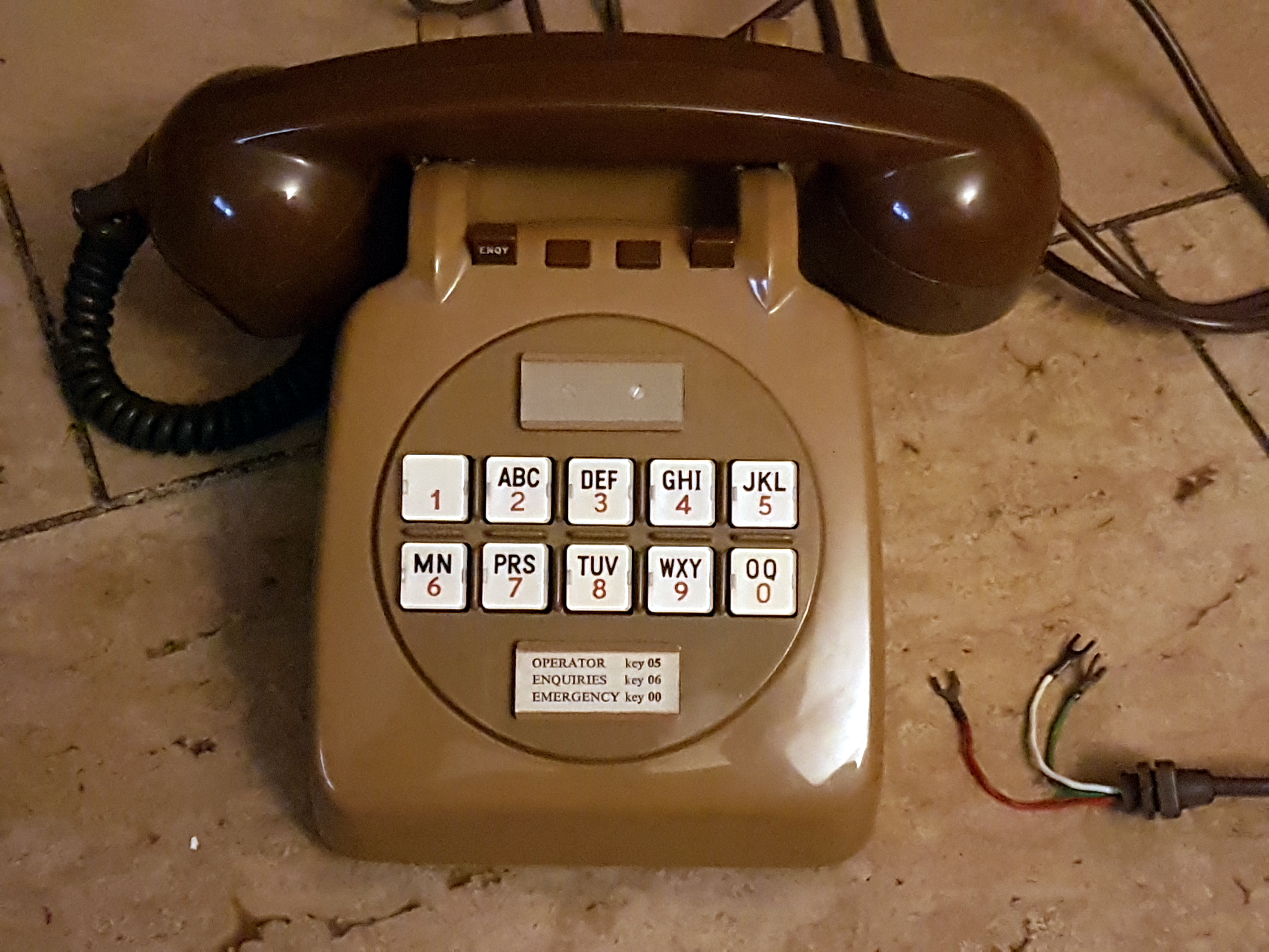 GPO 726L Telephone using DC signalling.